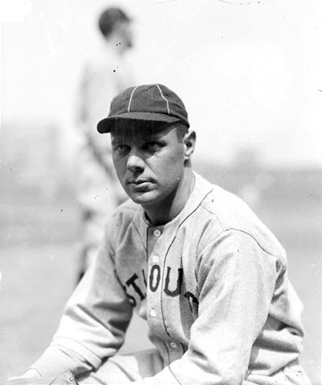 "Informal three-quarter length portrait of baseball player Stauffer, of the American League's St. Louis Browns, crouching on the field at Comiskey Park, which was located at 324 West 35th Street and bounded by West 34th Street, South Shield's Avenue (formerly Portland Avenue), and South Wentworth Avenue in the Armour Square community area of Chicago, Illinois. A baseball player is standing in the background."